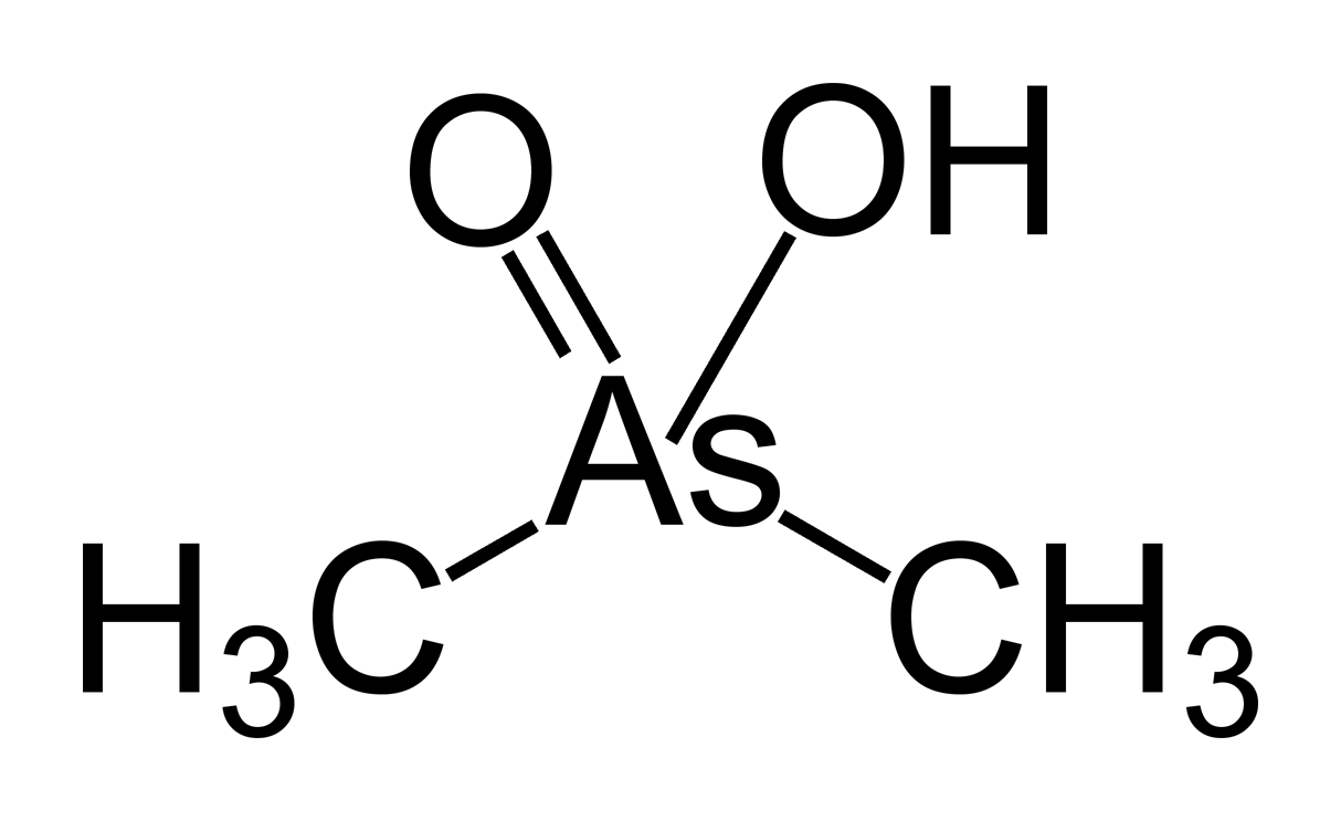 Structure formula of Dimethylarsenic acid (Cacodylic acid)